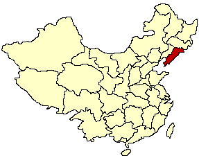 PRC provinces (1949) - Liaodong